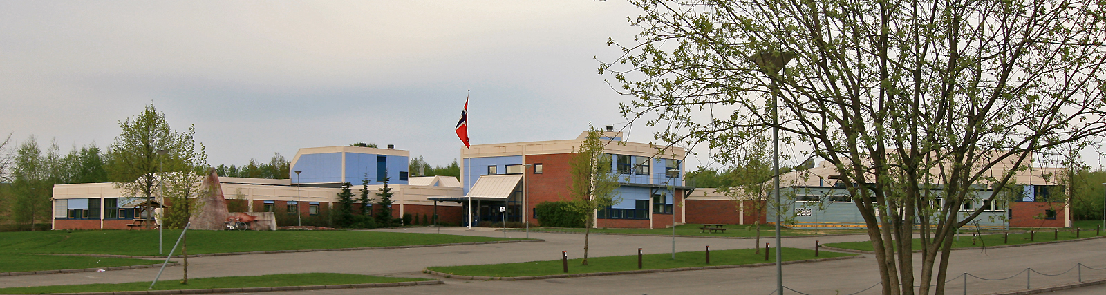 Stange upper secondary school (Stange videregående), Stange, Norway.